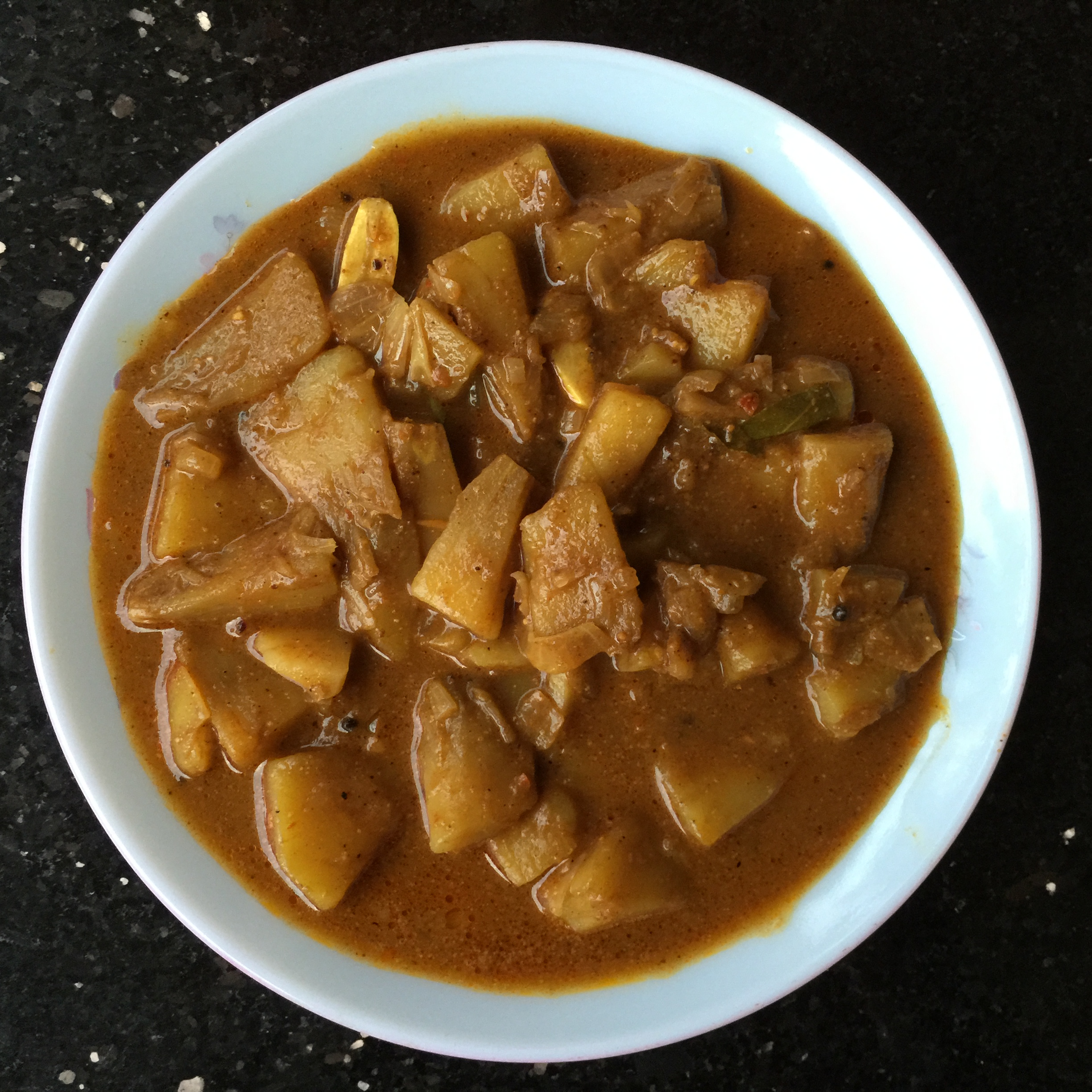 Dry-Roasted Grated Coconut is used for making Theeyal Curry.